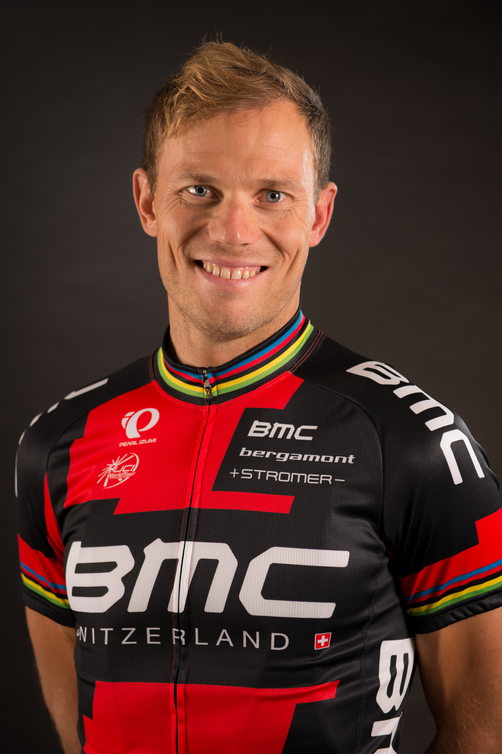 Thor Hushovd, BMC Racing Team 2014.